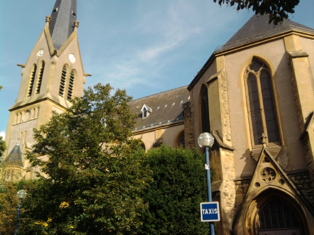 Photography of the "Saint-Fiacre" Church in Metz. Gothic style, beginning of the XXe century.